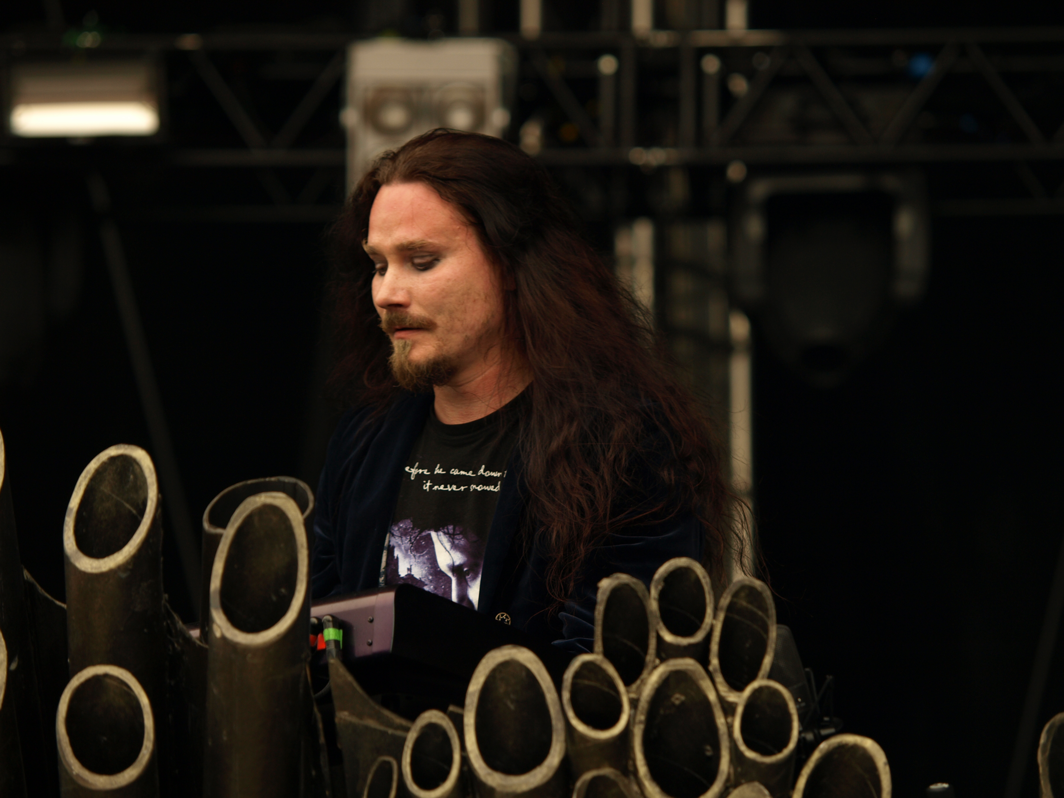 Finnish band Nightwish at Tuska Open Air 2013